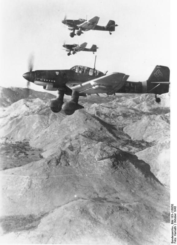 Three dive bombers Junkers Ju 87D Stuka, in flight over Yugoslavia (October 1943).